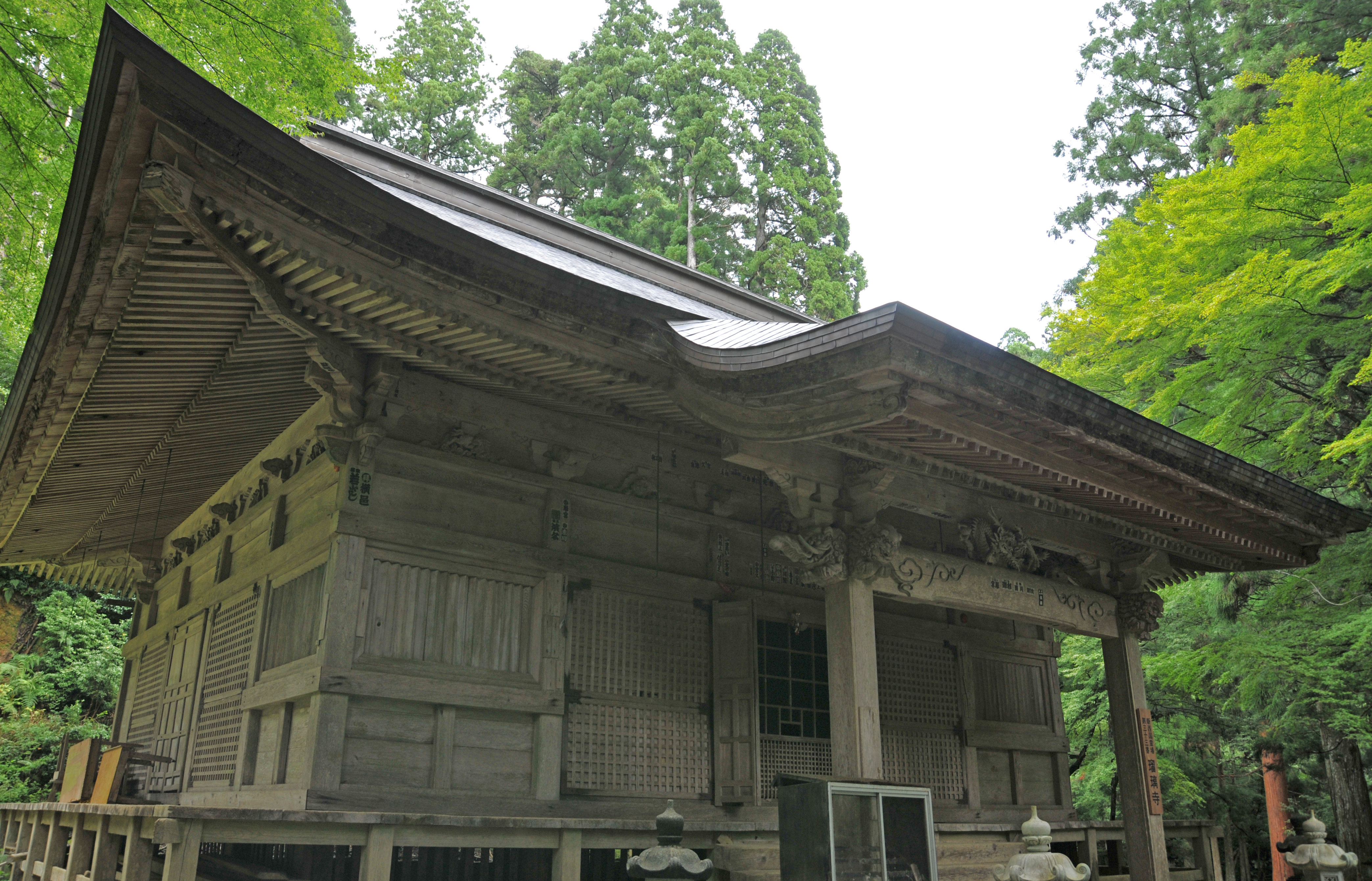 Main temple, Ruri-ji